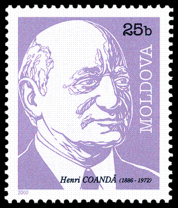 Stamp of Moldova